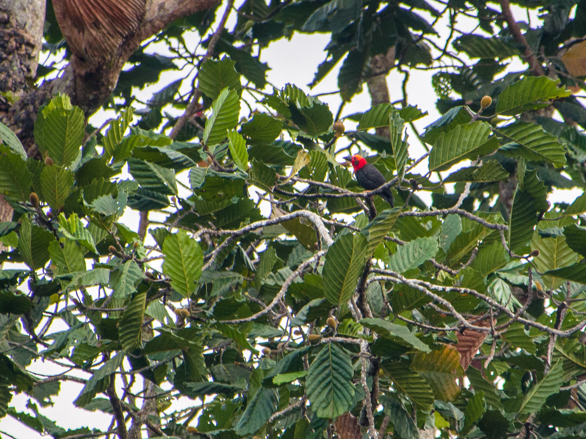 Slightly closer than the last sighting!